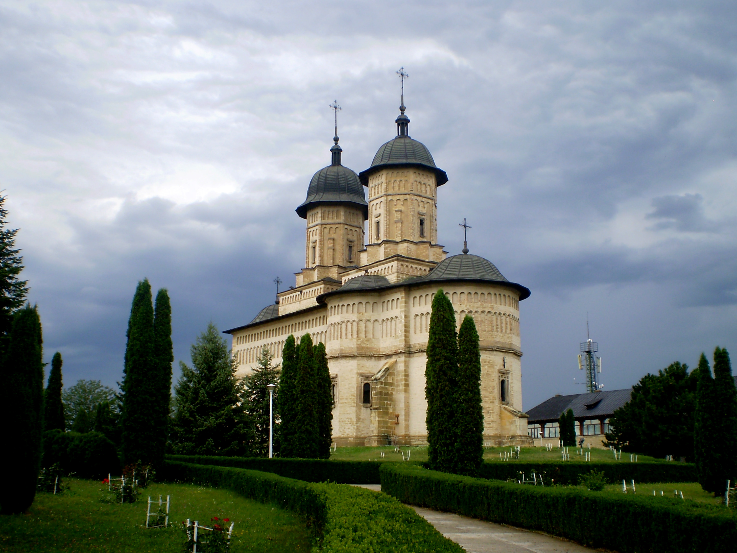 Iaşi , Cetatuia Monastery , Iaşi , Romania